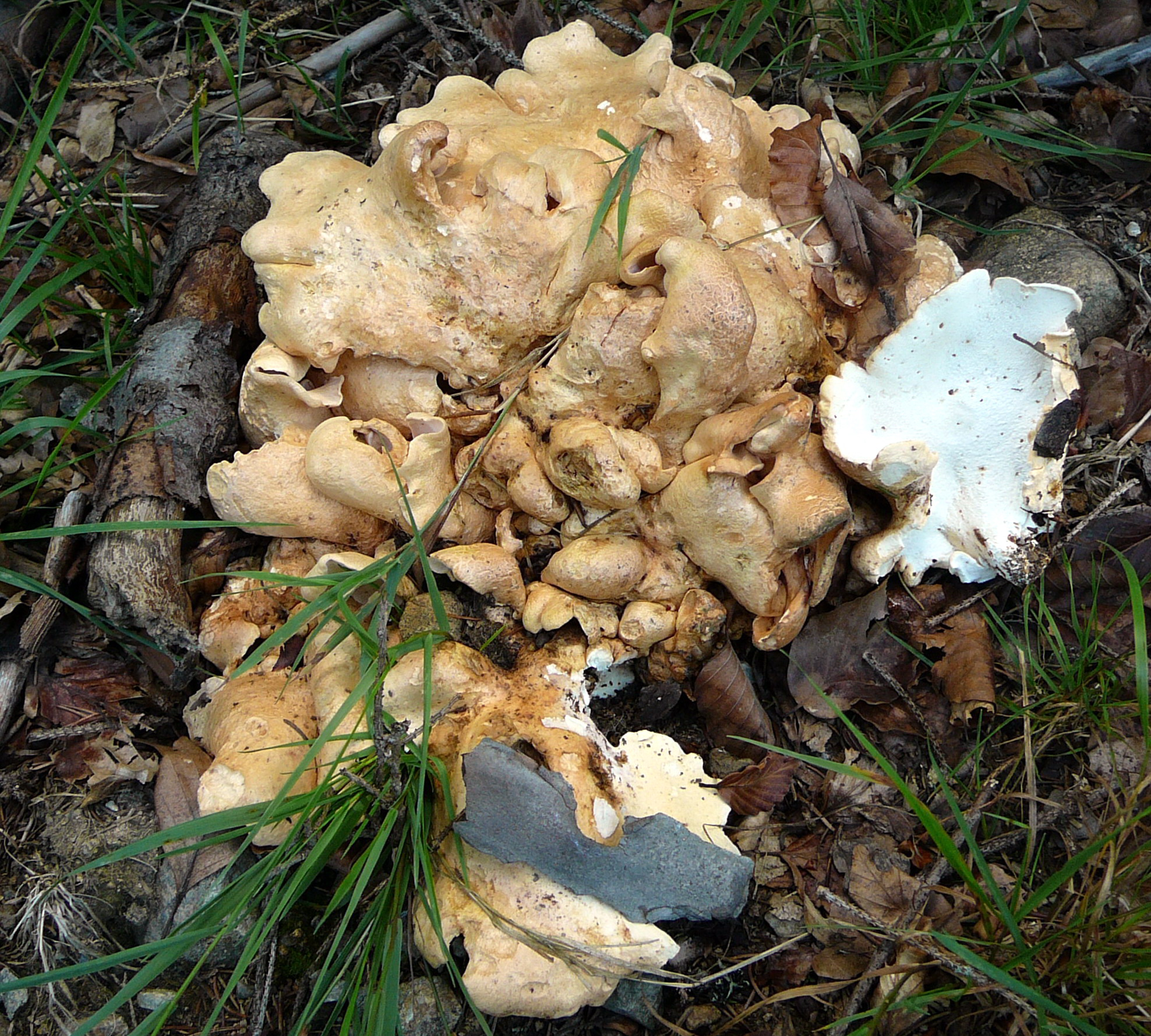 Albatrellus confluens. Found in August 2011, near Wallern (Volary), Sumava, the Czech Republic.